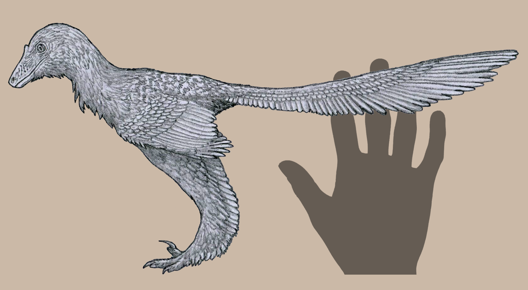 Life reconstruction of Caihong, Tom Parker, 2018.